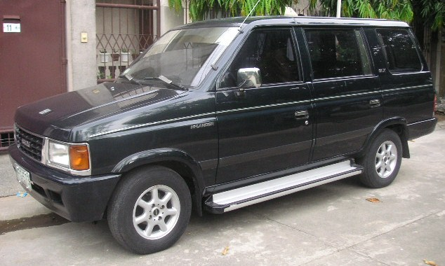 User's own car and picture. 1997 Isuzu Hi-lander (Filipino market Isuzu Panther).